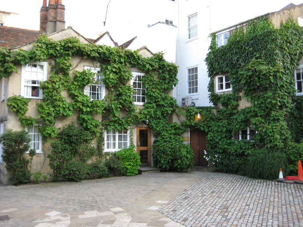 Holywell Quad